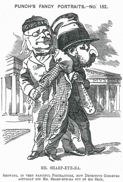 Moses Shapira and Christian David Ginsberg